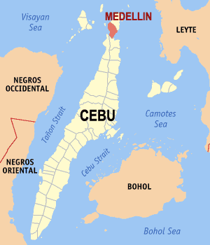 Map of Cebu showing the location of Medellin